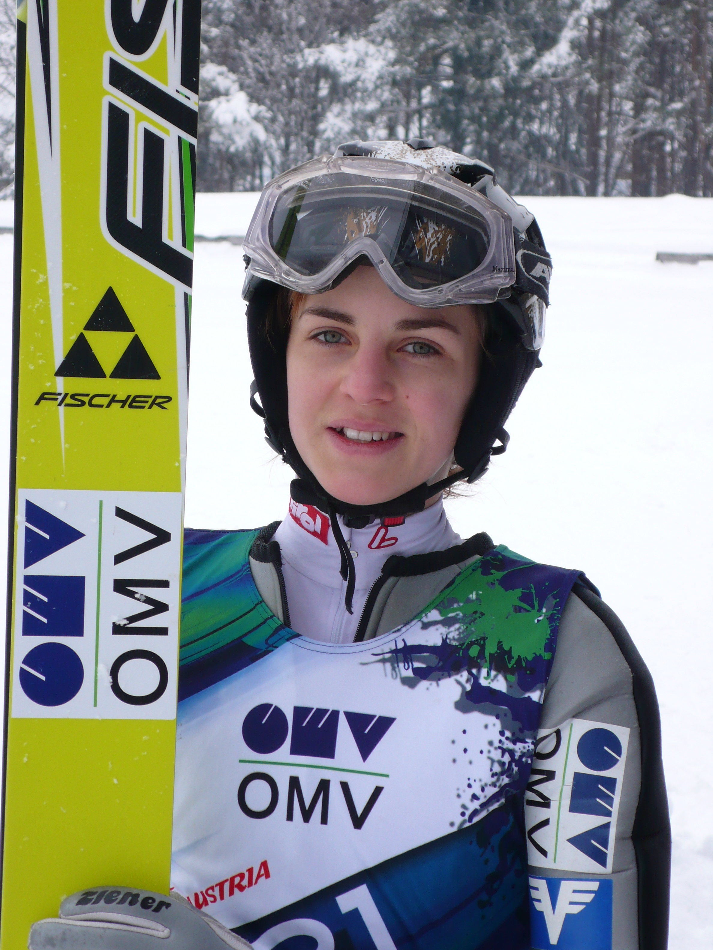 Cornelia Roider, at the Ski jumping Continental Cup in Villach on the 2010-02-12.